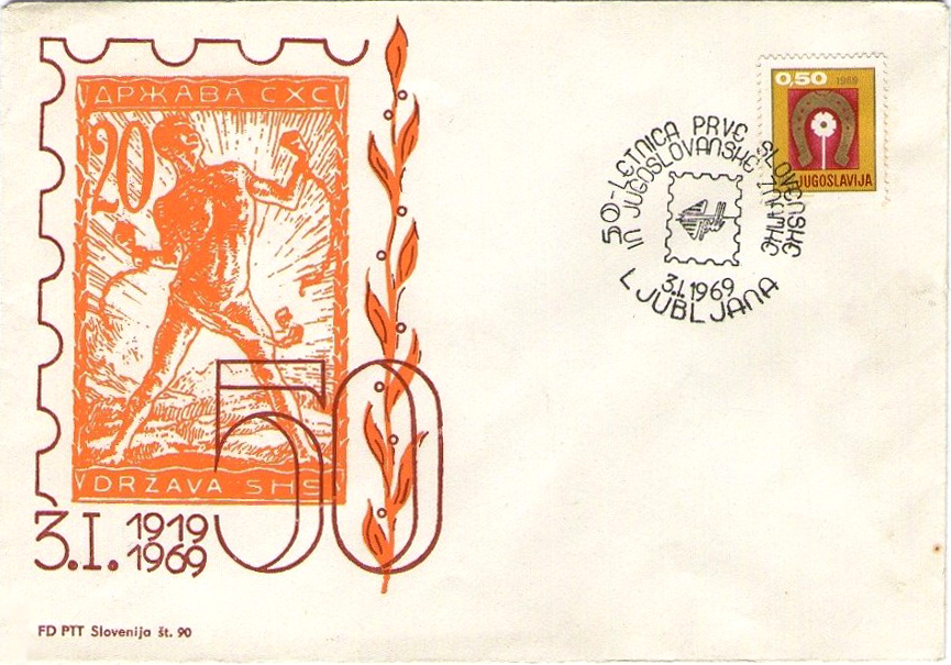 First Day Cover of Yugoslavia, 50th anniversary of the first stamp of Yugoslavia and Slovenia (Verigar issue), 1969